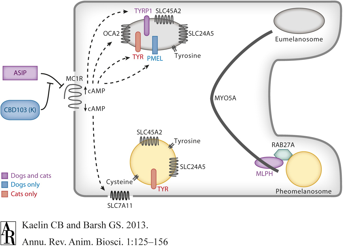 Pathway for eumelanin synthesis and phaeomelanin synthesis by a melanocyte in dogs and in cats.